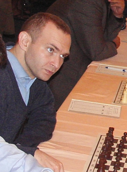 GM Vadim Milov, 24th European Club Cup 2008 Halkidiki, Greece